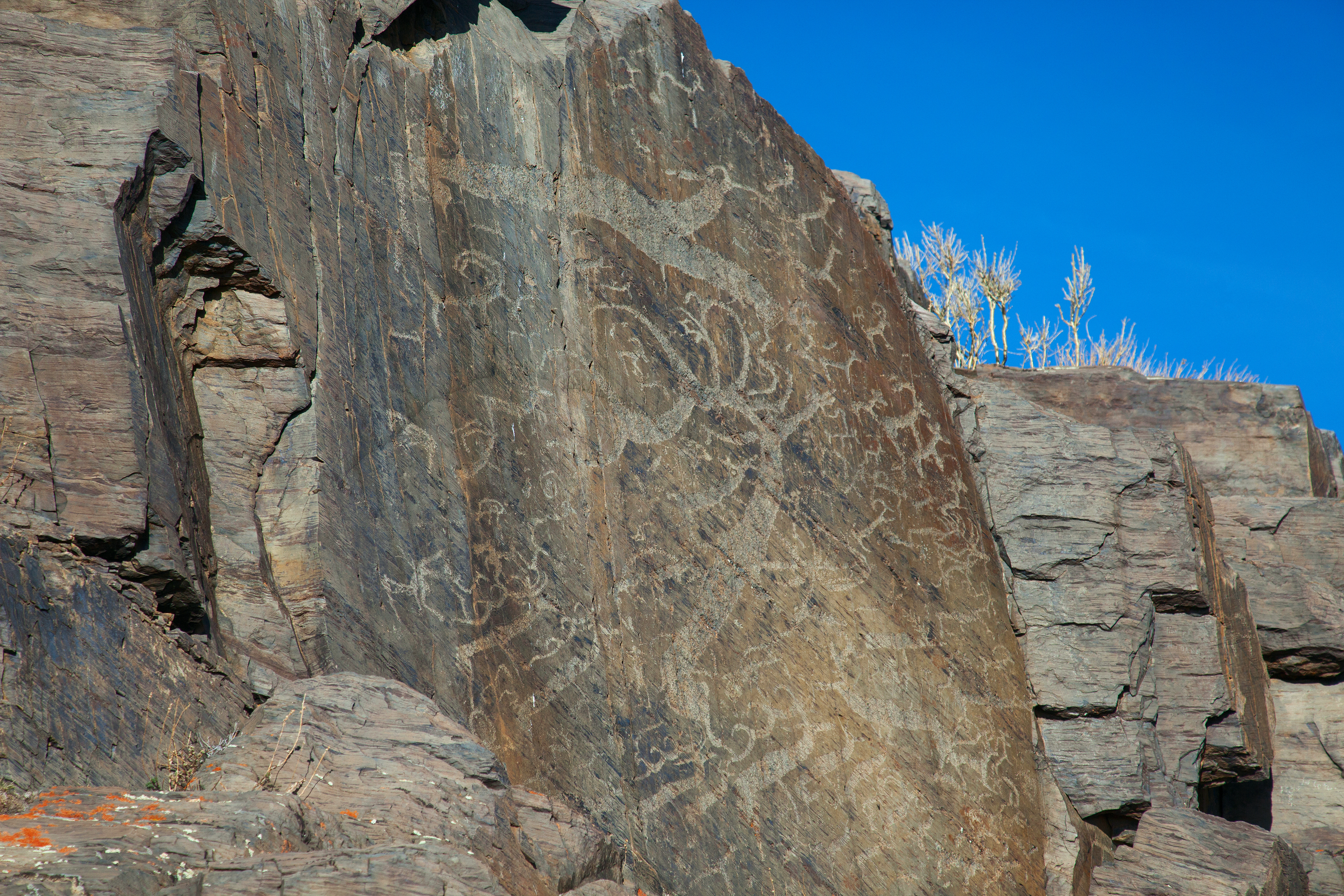 Petroglyphs in the Tura-Alty tract in the Altai Mountains